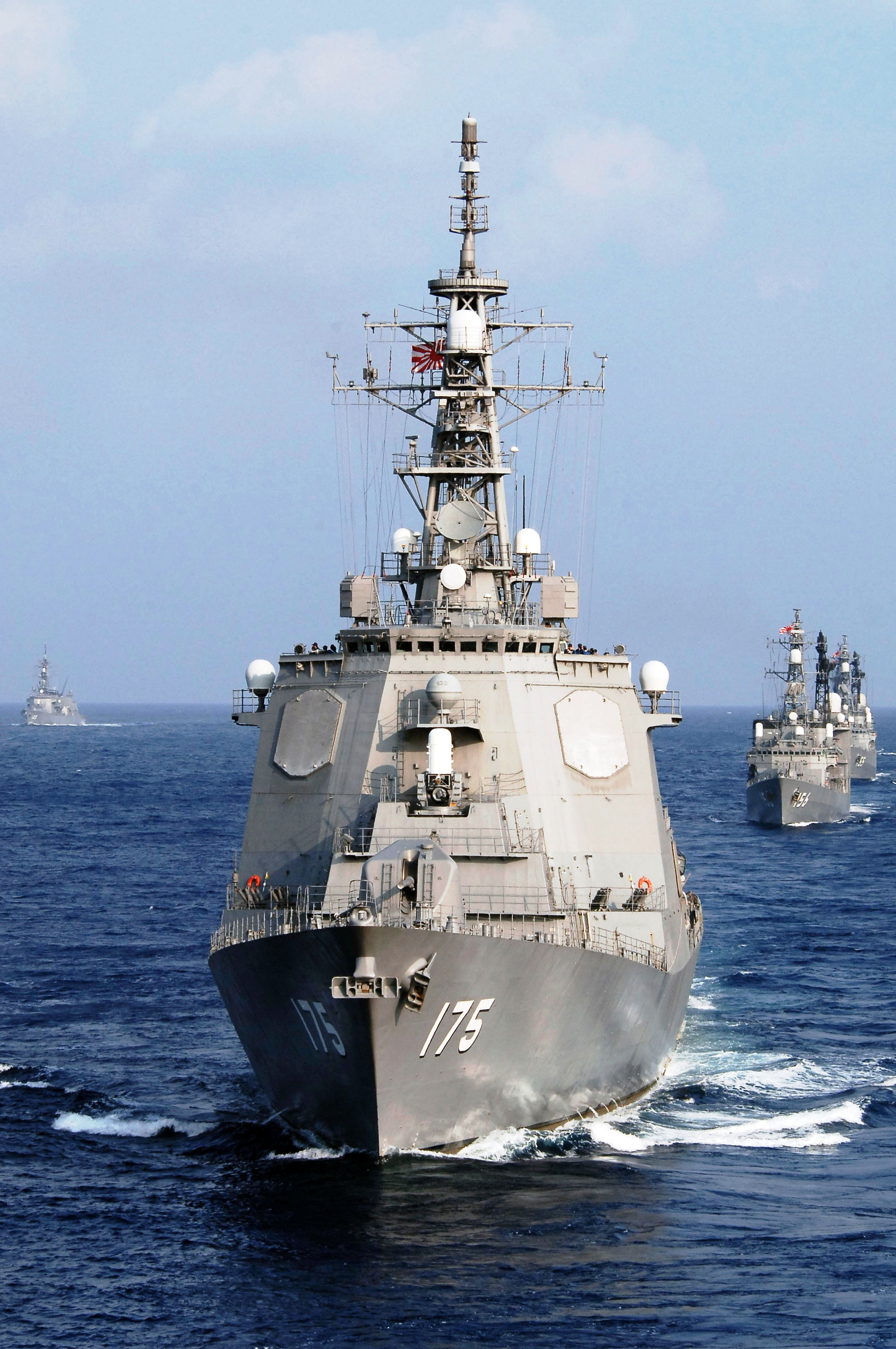 Japan Self-Defense Force JDS Myōkō (DDG-175) at the conclusion of exercise Annualex in the Philippine Sea Nov. 16, 2007.